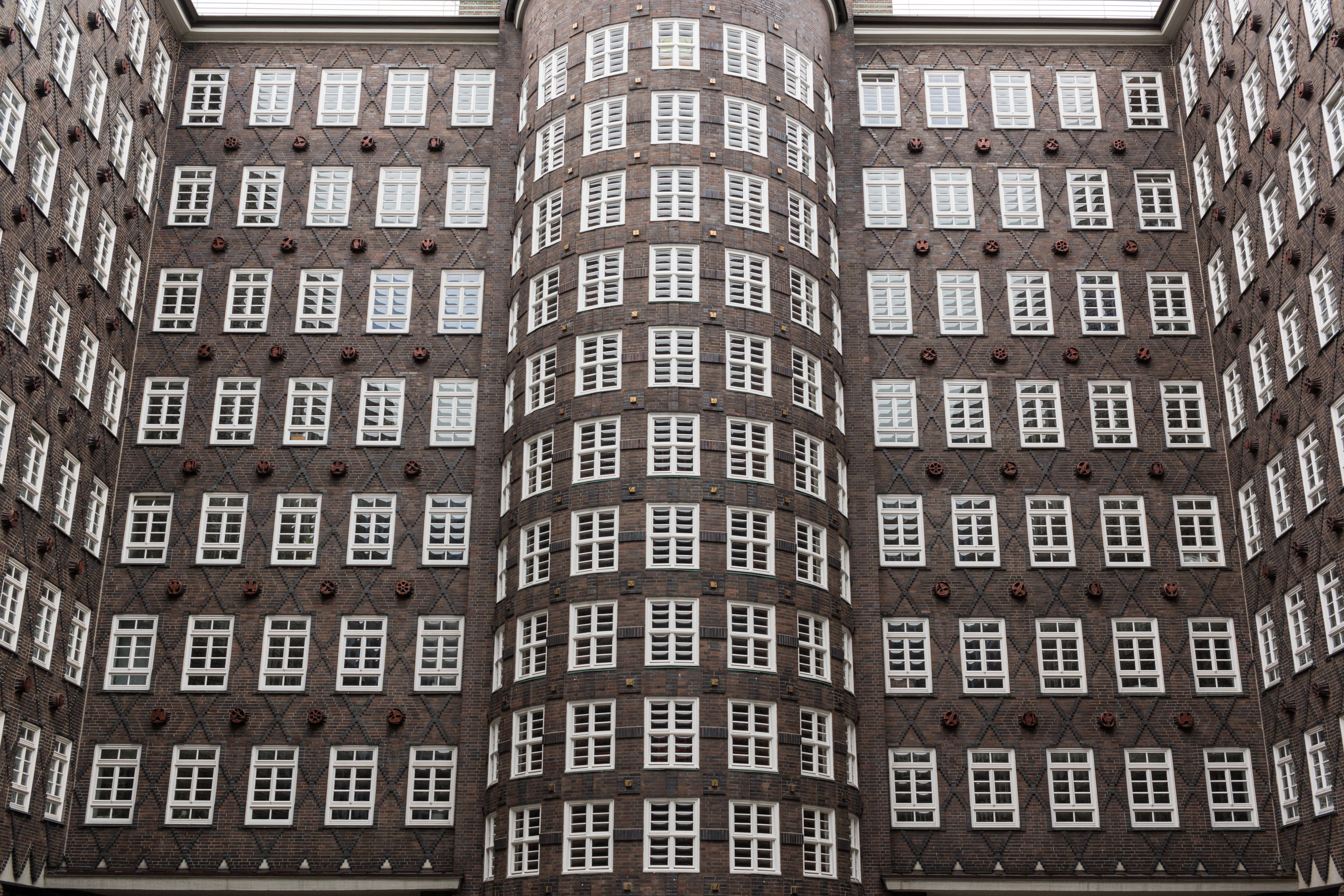 Sprinkenhof im Kontorhausviertel, Hamburg, Germany This is a photograph of an architectural monument. Building TitleSprinkenhofArchitectHans Gerson, Oskar Gerson, Fritz HögerDatebetween 1927 and 1930 date QS:P,+1950-00-00T00:00:00Z/7,P1319,+1927-00-00T00:00:00Z/9,P1326,+1930-00-00T00:00:00Z/9